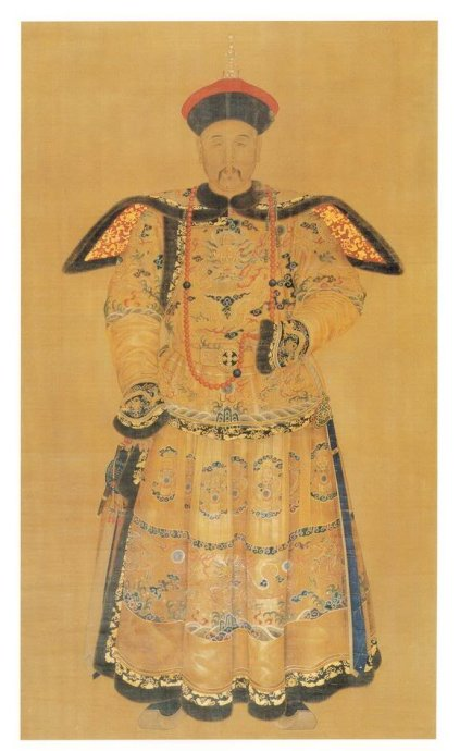 Yongzheng Emperor